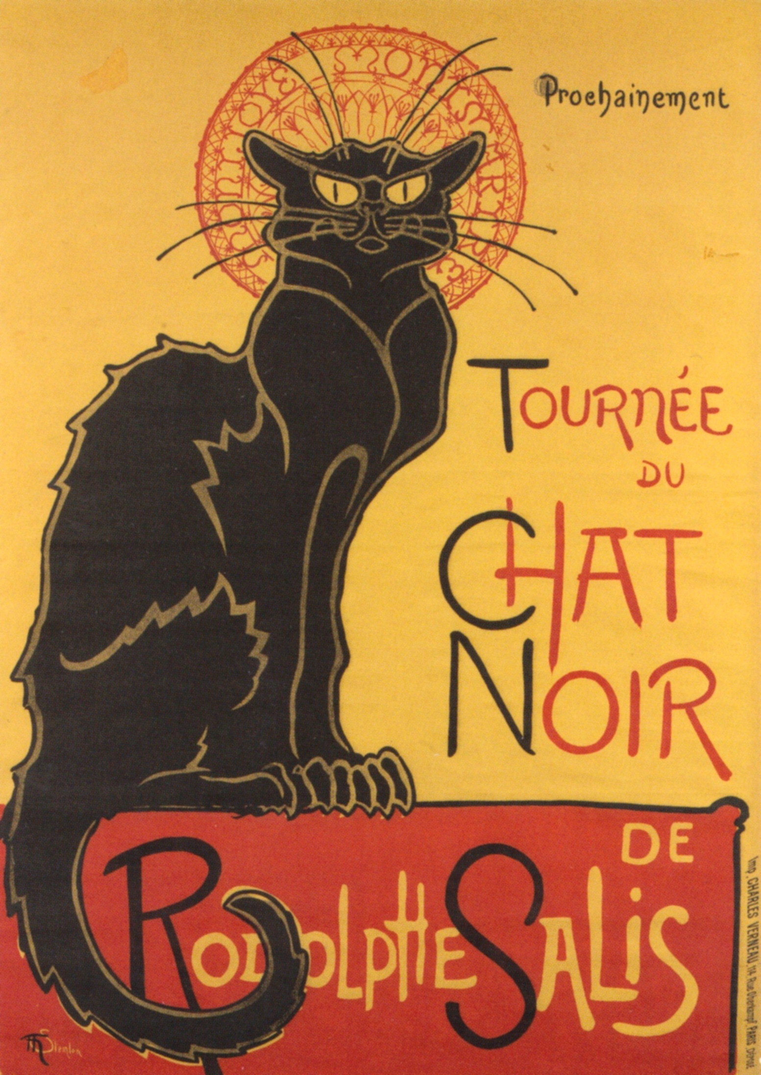 The poster advertizes the approaching tour of the shadowpuppet theatre "Le Chat Noir" of Rodolphe Salis.